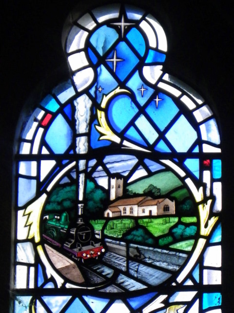 Stained glass window, St Cuthbert's Church. This scene depicts the years between 1845 when the railway came to Kildale and 1868 when the Saxon church was replaced by the present Victorian church. The Saxon church is taken from a small watercolour of it that still survives. The York National Railway Museum guided John Lawson (the designer) on the correct model of engine to have used the line between 1845-68.